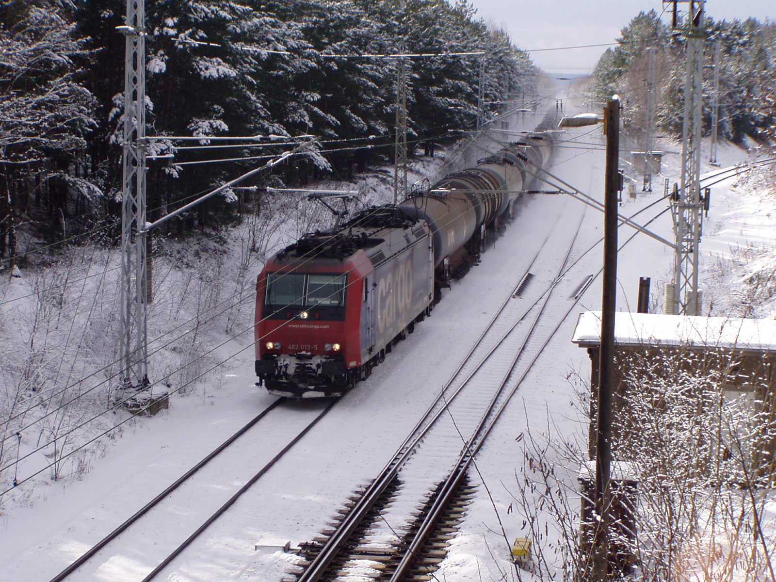 Bombardier Traxx 482, SBB railway Halle (Saale) – Cottbus near Doberlug-Kirchhain, Germany